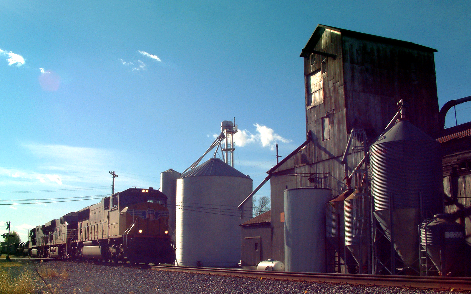 A freight train passing grain elevators in the town of Buck Creek, Indiana. This view looks west from near Miller Street.